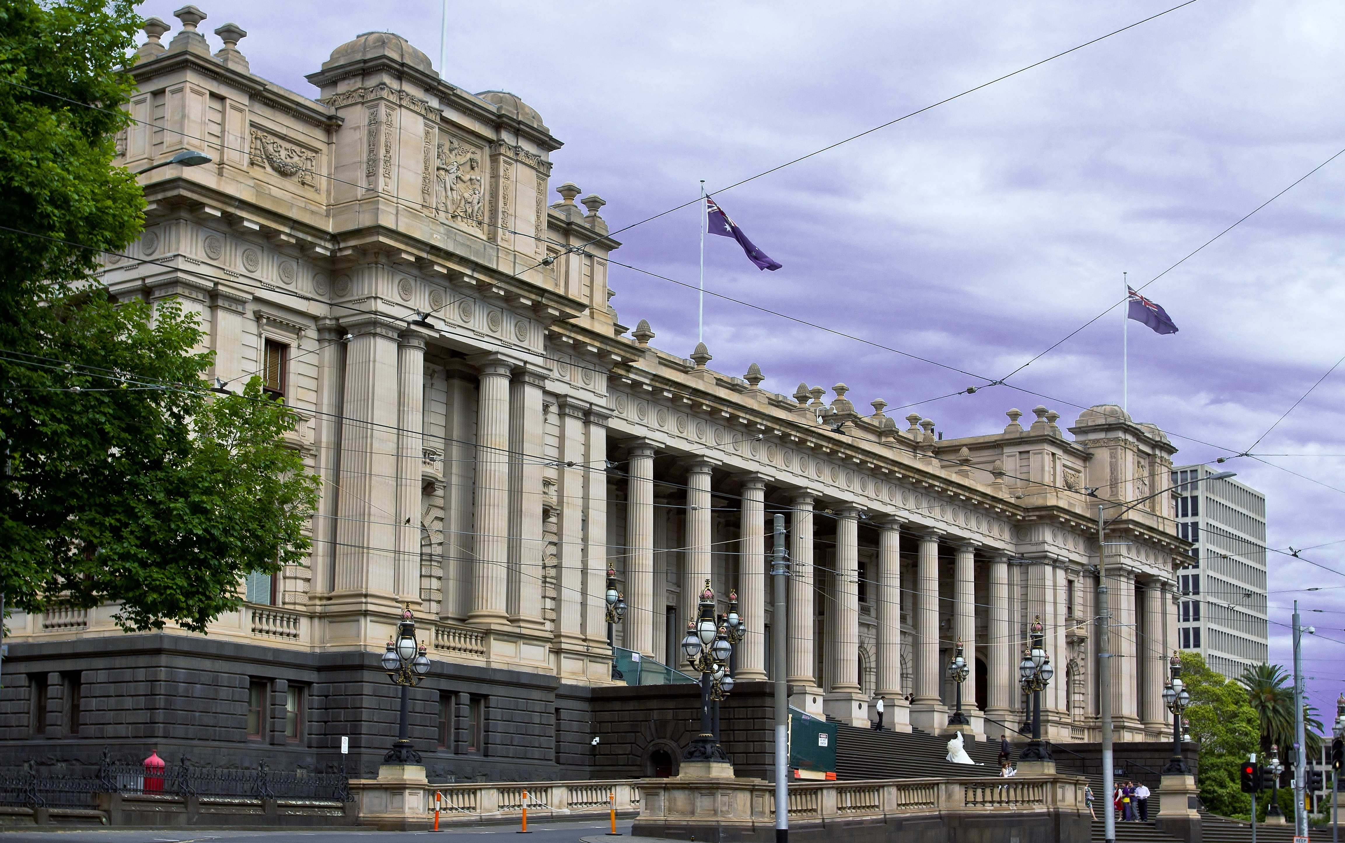 Spring St, East Melbourne Vic